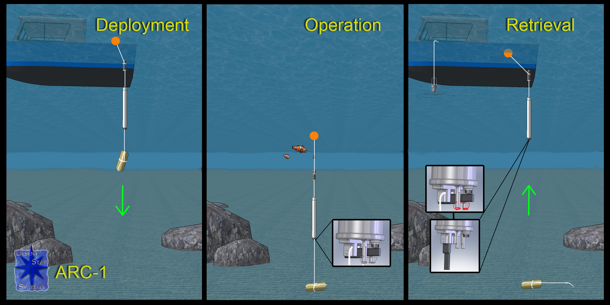 Method of the use and operation of an Acoustic Release device to deploy and recover instrumentation from the sea floor